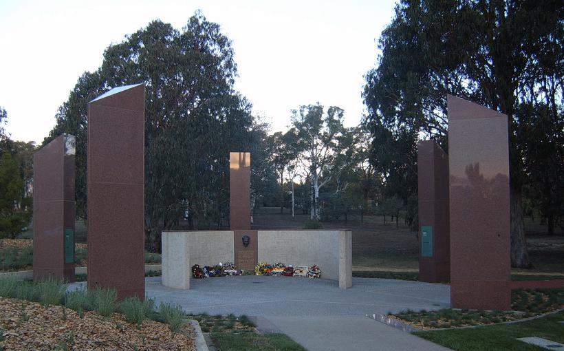 Kemal Atatürk Memorial, as refurbished in 2007 in time for ANZAC Day. The memorial is opposite the Australian War Memorial on ANZAC Parade in Canberra, Australian Capital Territory. The refurbishment involved erecting pink-granite columns at the points of the star that encompasses the memorial. Four of these have a placard in English and Turkish telling some of the story of the relationship between the countries and the relationship with Atatürk. Flowers and wreaths were those laid on ANZAC Day, 25 April 2007. Picture taken 26 April 2007.